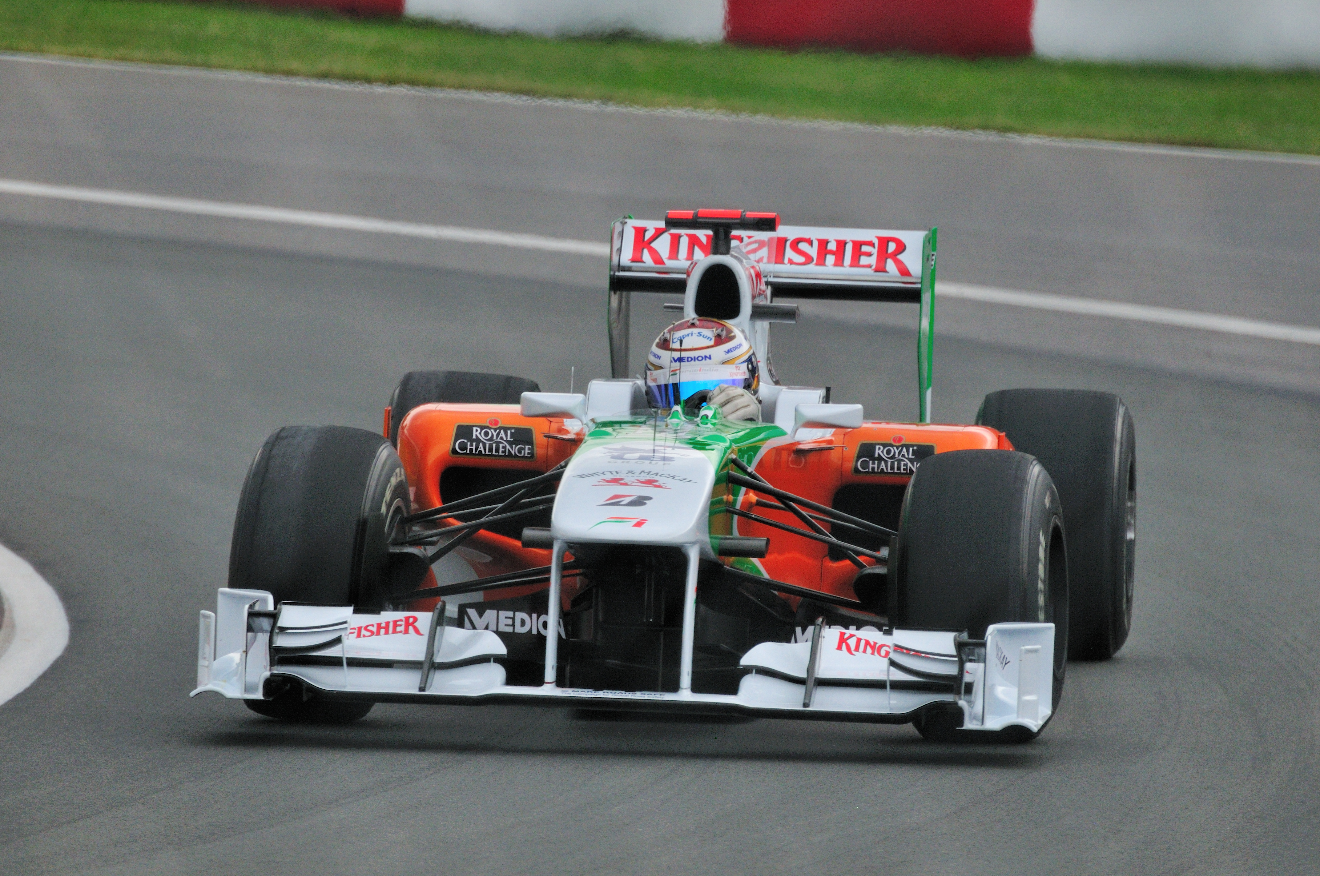 Force India driver Adrian Sutil's VJM03 in the Senna corner (2010 Montreal GP)